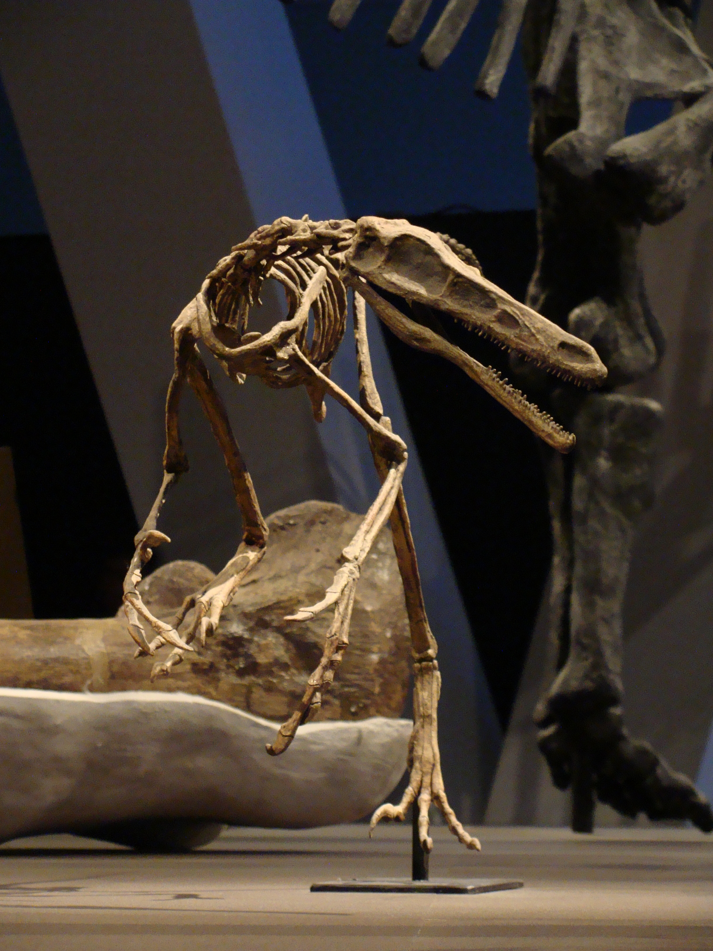 Buitreraptor on display at the Royal Ontario Museum.